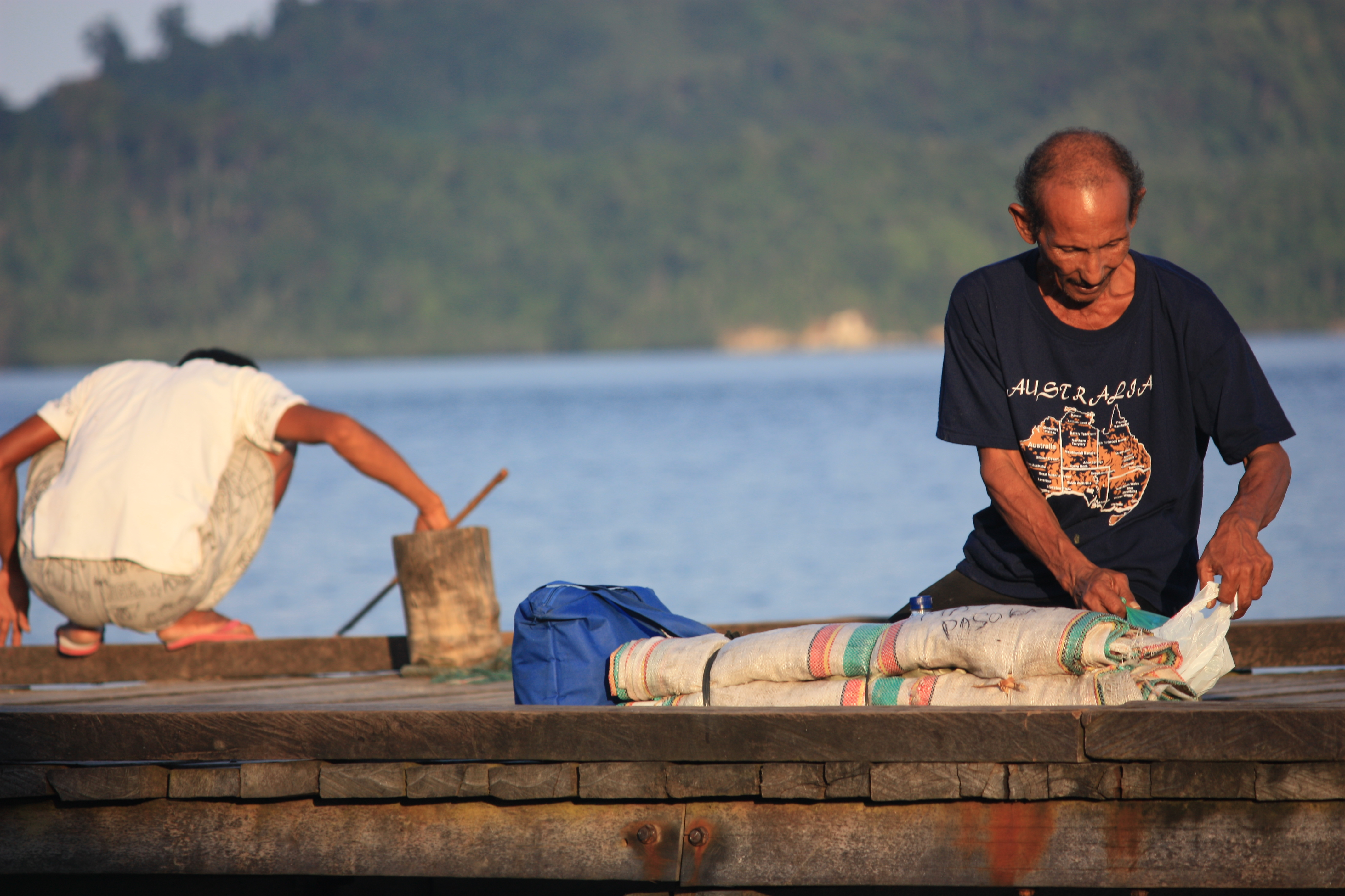 Malenge, fishermen